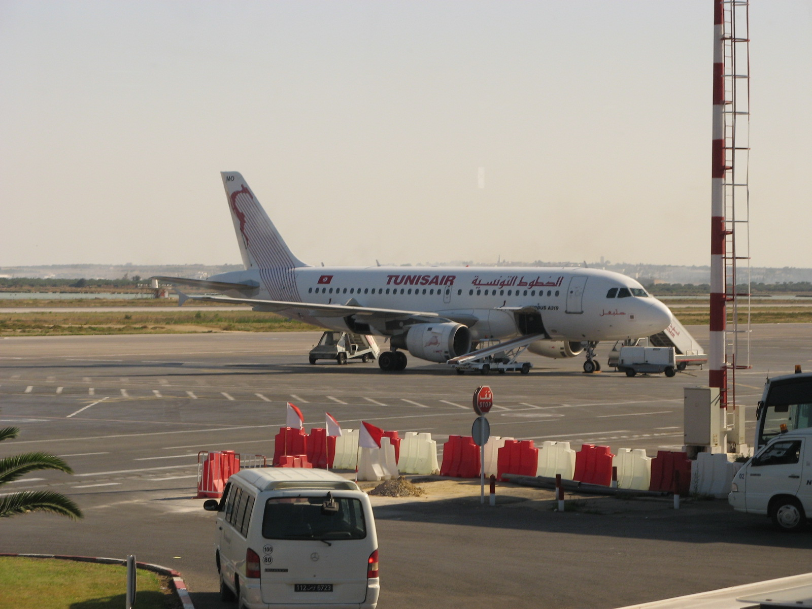 Tunisair plane at the Monastir International Airport (Tunisia)